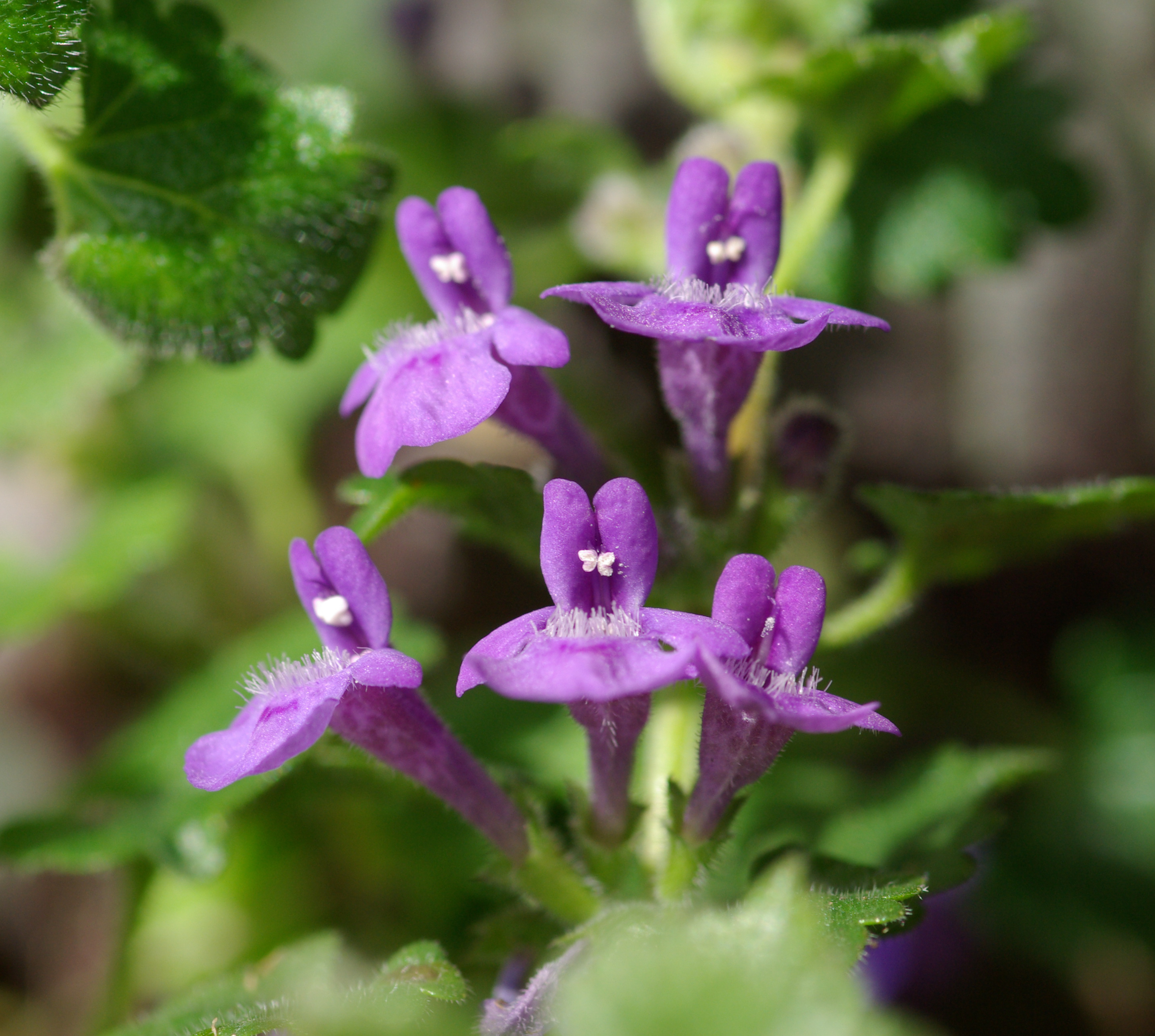 Glechoma hederacea